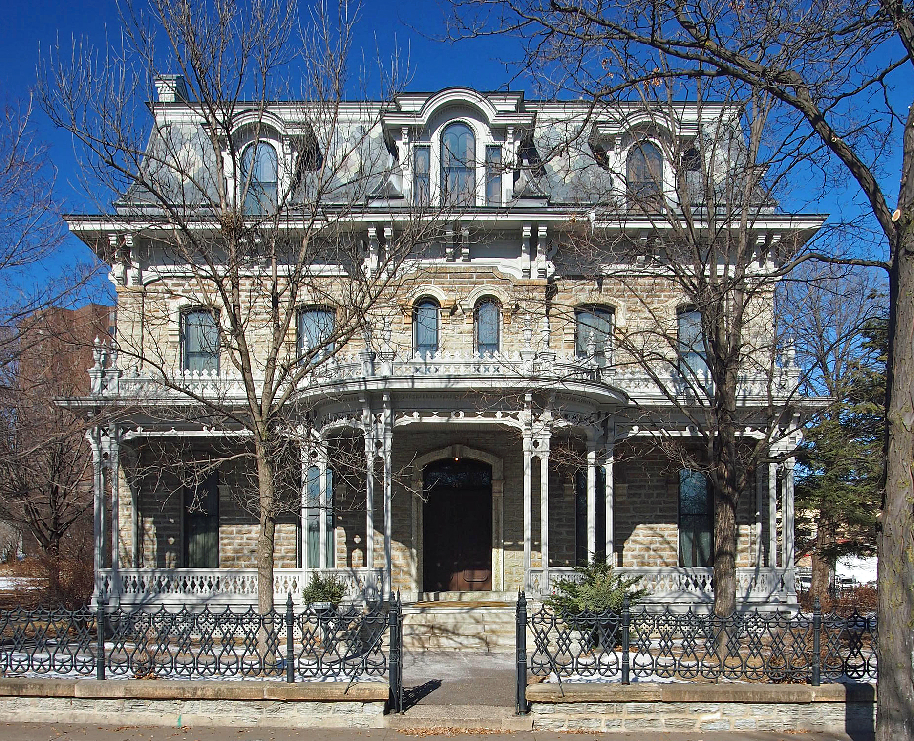 Alexander Ramsey House, 265 Exchange St S, St Paul, Minnesota, USA. Viewed from the southeast.